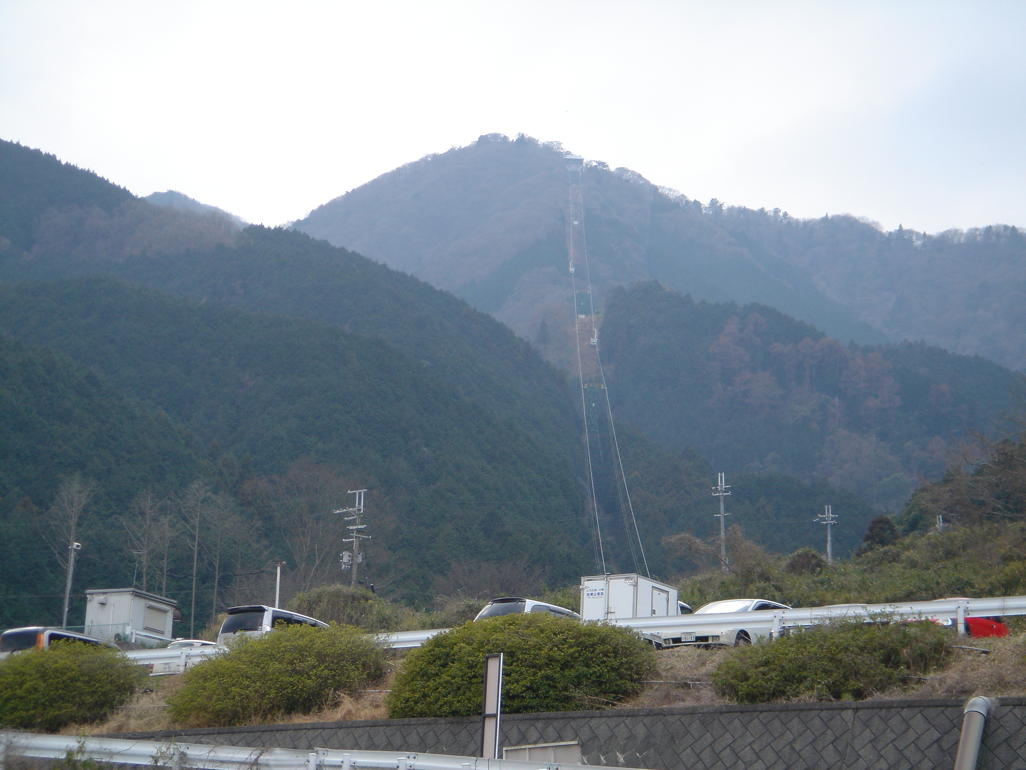 Kintetsu Katsuragi Ropeway Line